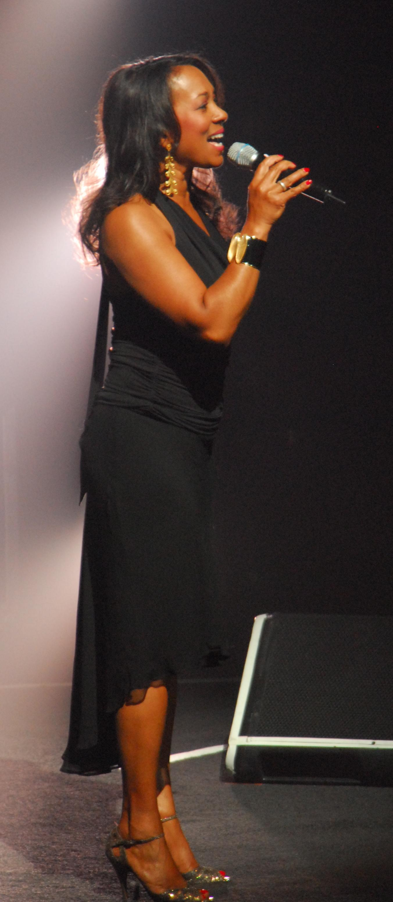 Katie Kissoon at the Roger Waters concert in Ottawa, Canada (June 6 2007)